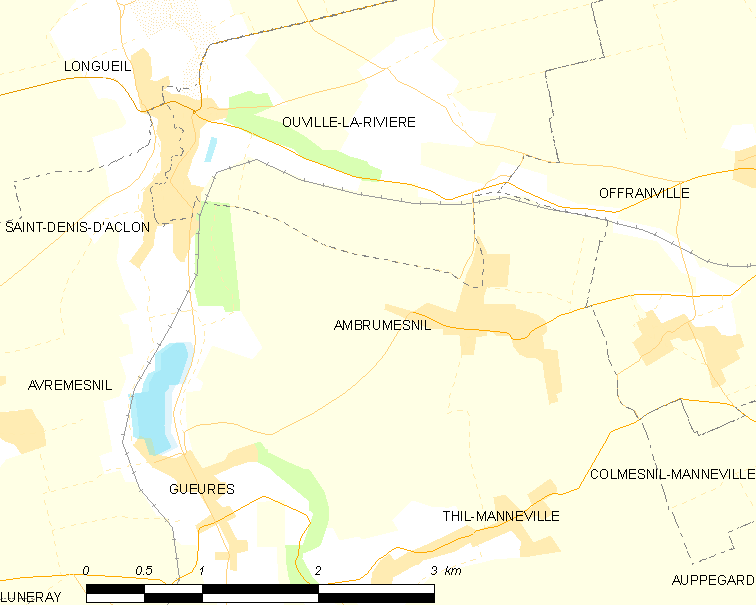 Map of French municipality Ambrumesnil